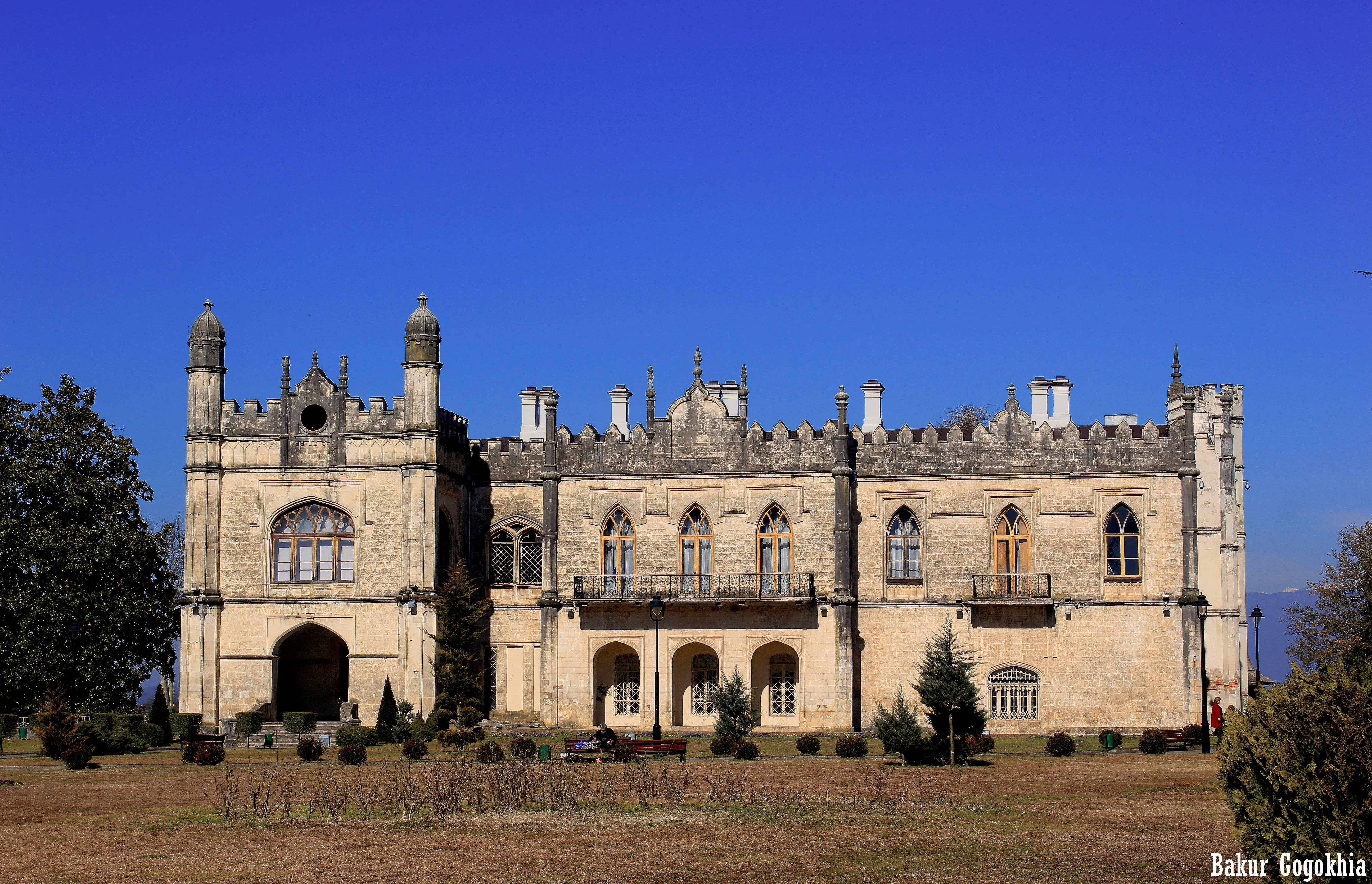 Zugdidi Queen Palace, Georgia